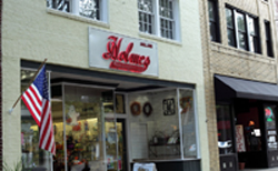 For over 50 years Holmes has been a special place to purchase gifts in downtown Fayetteville. Photo taken by Webelos Scouts of Den 3, Pack 895.